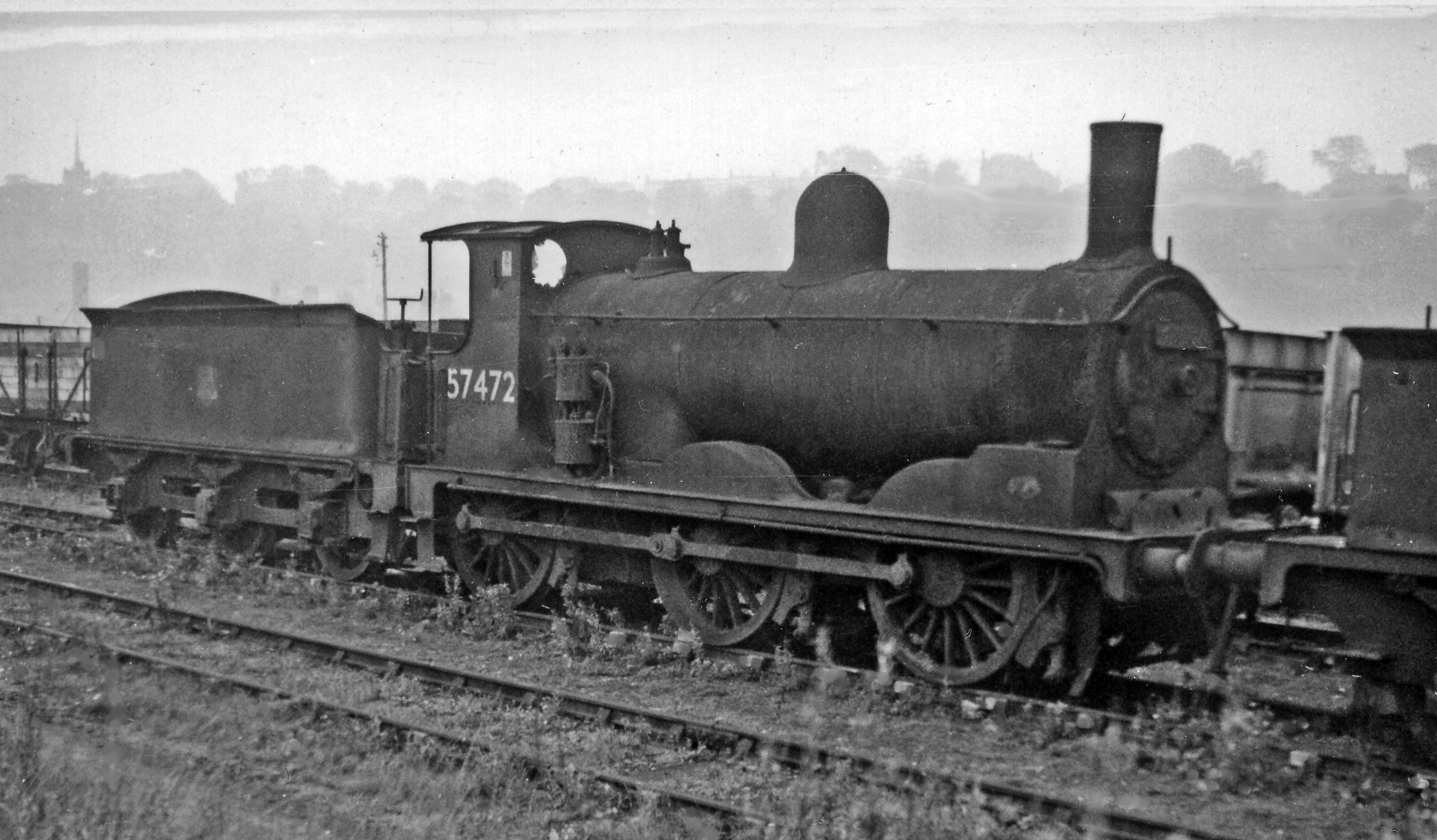 One of many condemned locomotives dumped in sidings at Bo'ness in 1961. No. 57472 is one of the numerous ex-Caledonian Drummond 'Jumbo' 2F 0-6-0s (built c. 1890, withdrawn 9/61). Note the Westinghouse pump for passenger train work - and of course the 'stovepie' chimney.